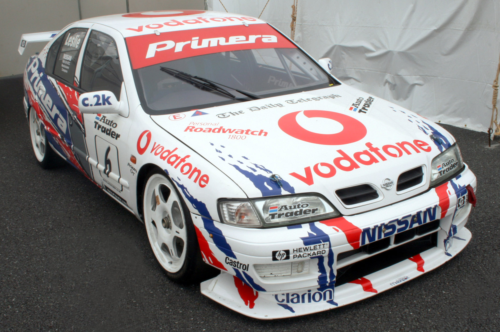 Nissan Primera (RML) in the 1999 British Touring Car Championship, David Leslie's car. The car won the manufacturers' championship.